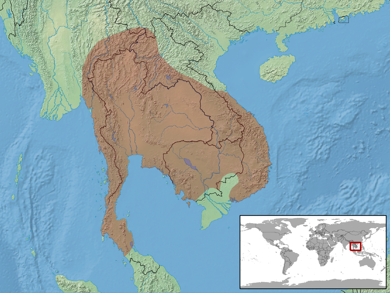 geographic distribution of Dryocalamus davisonii (Native: Cambodia; Lao People's Democratic Republic; Myanmar; Thailand; Viet Nam)